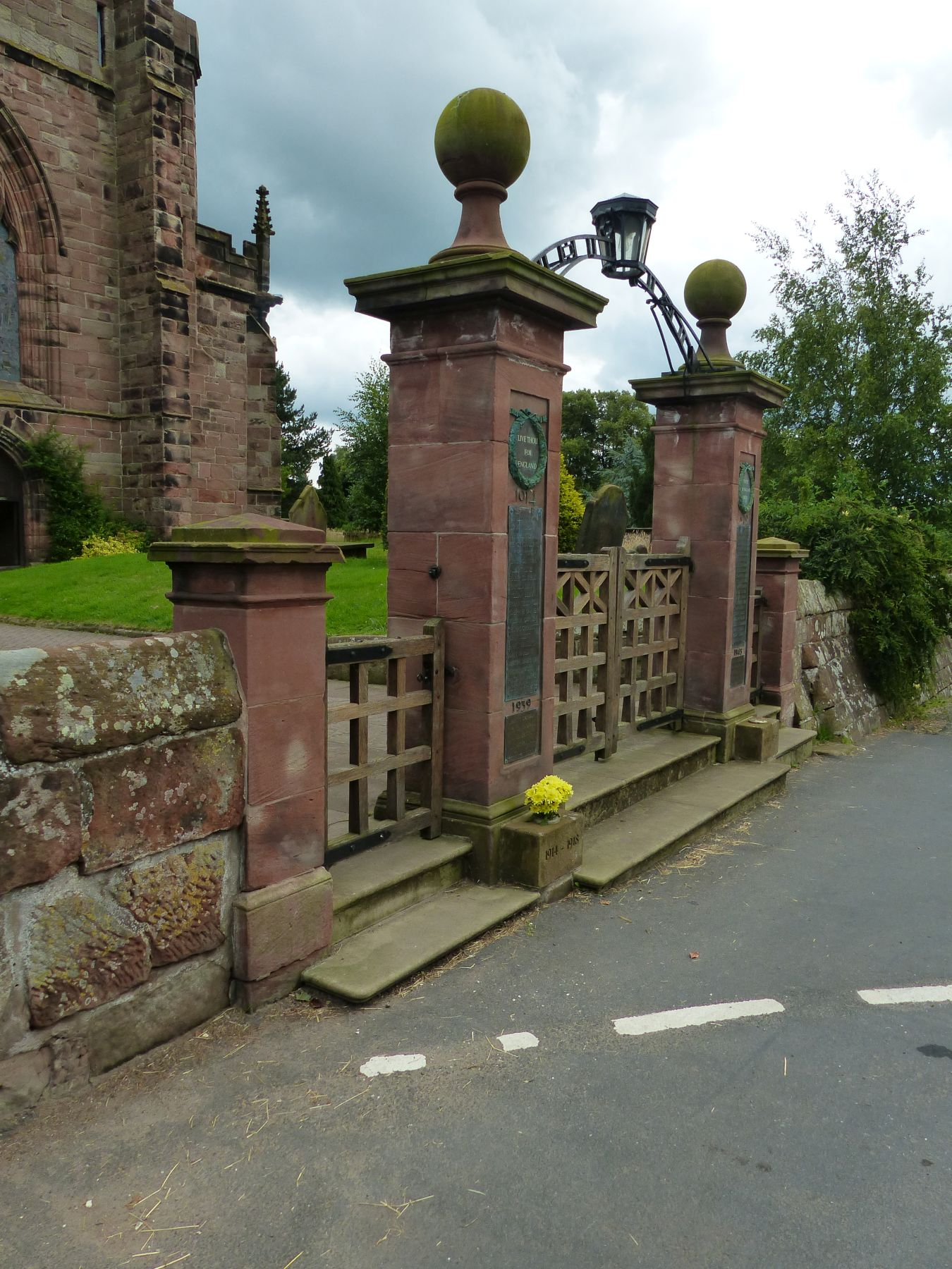 Grade II listed gates to St Boniface Church, Bunbury, Cheshire.